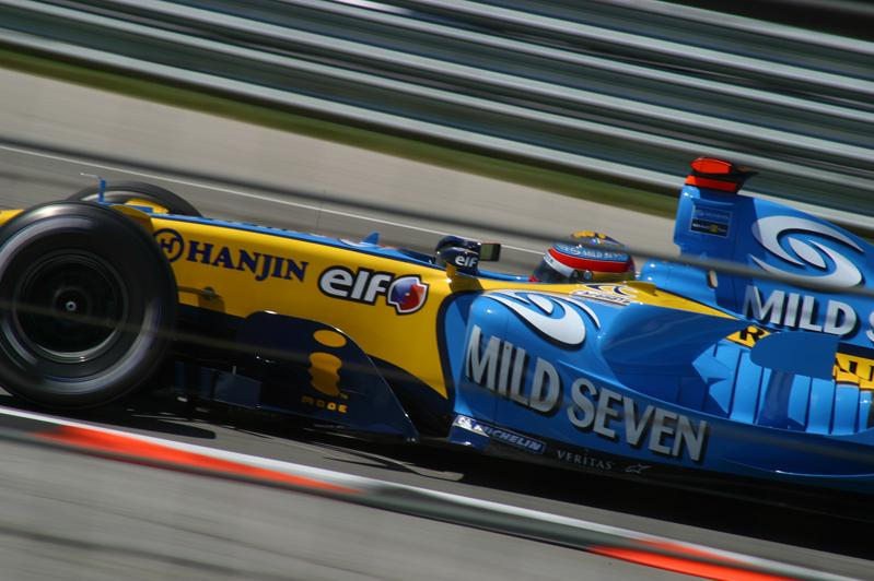 Fernando Alonso driving for Renault F1 at the 2005 United States Grand Prix.